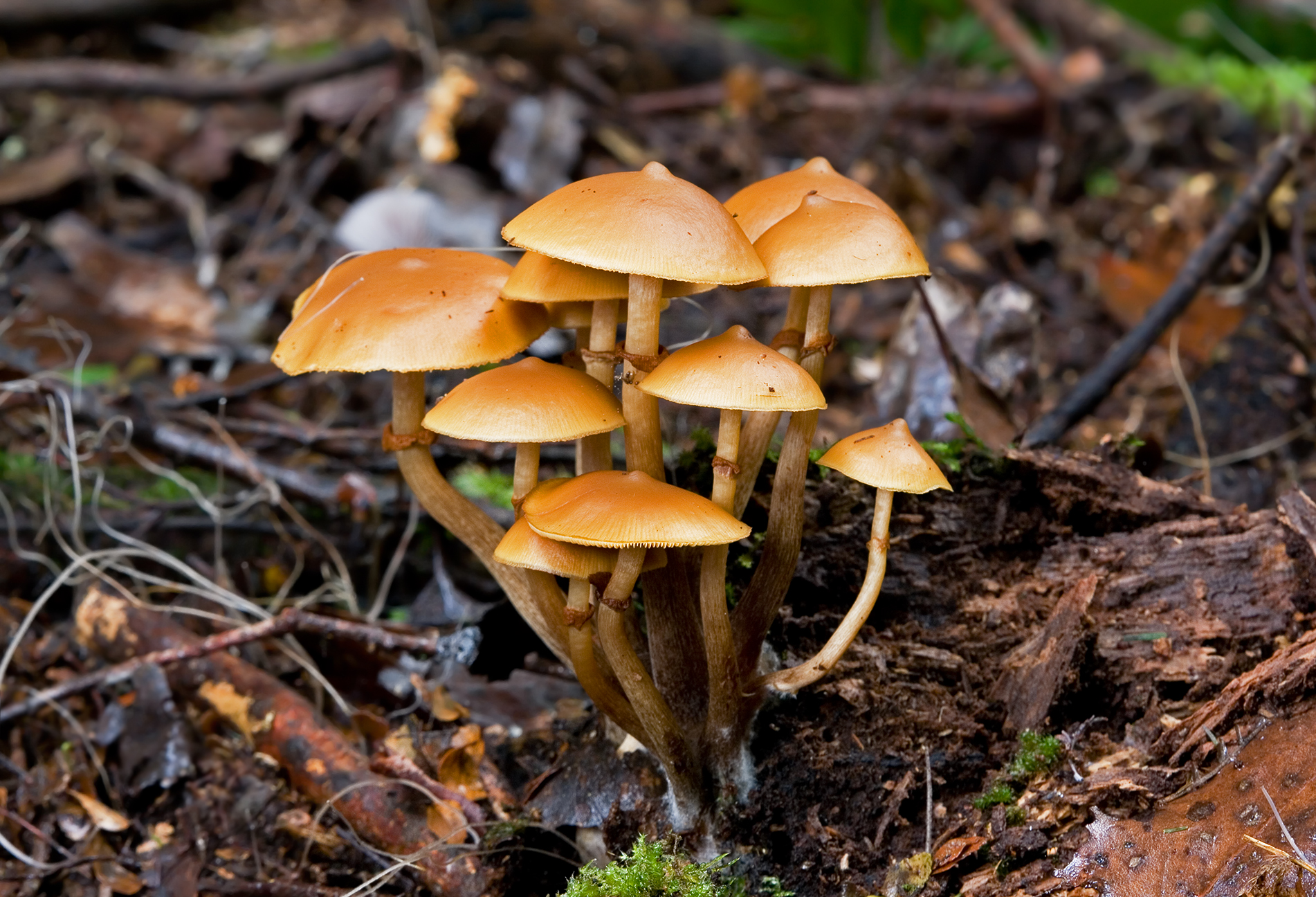 Galerina patagonica. Marriott Falls Track, Mt Field National Park, Tasmania, Australia